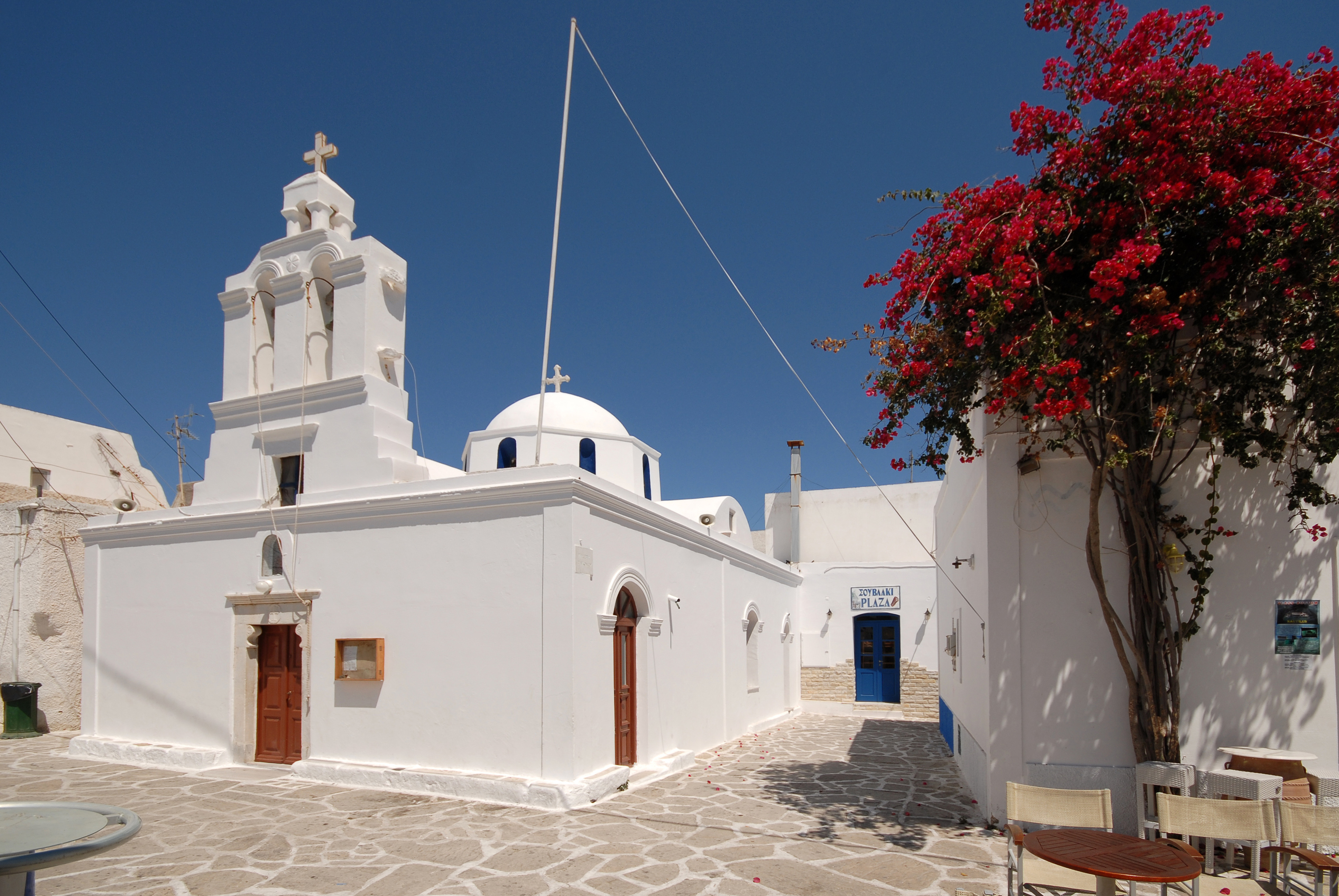 Greece Antiparos Plazza